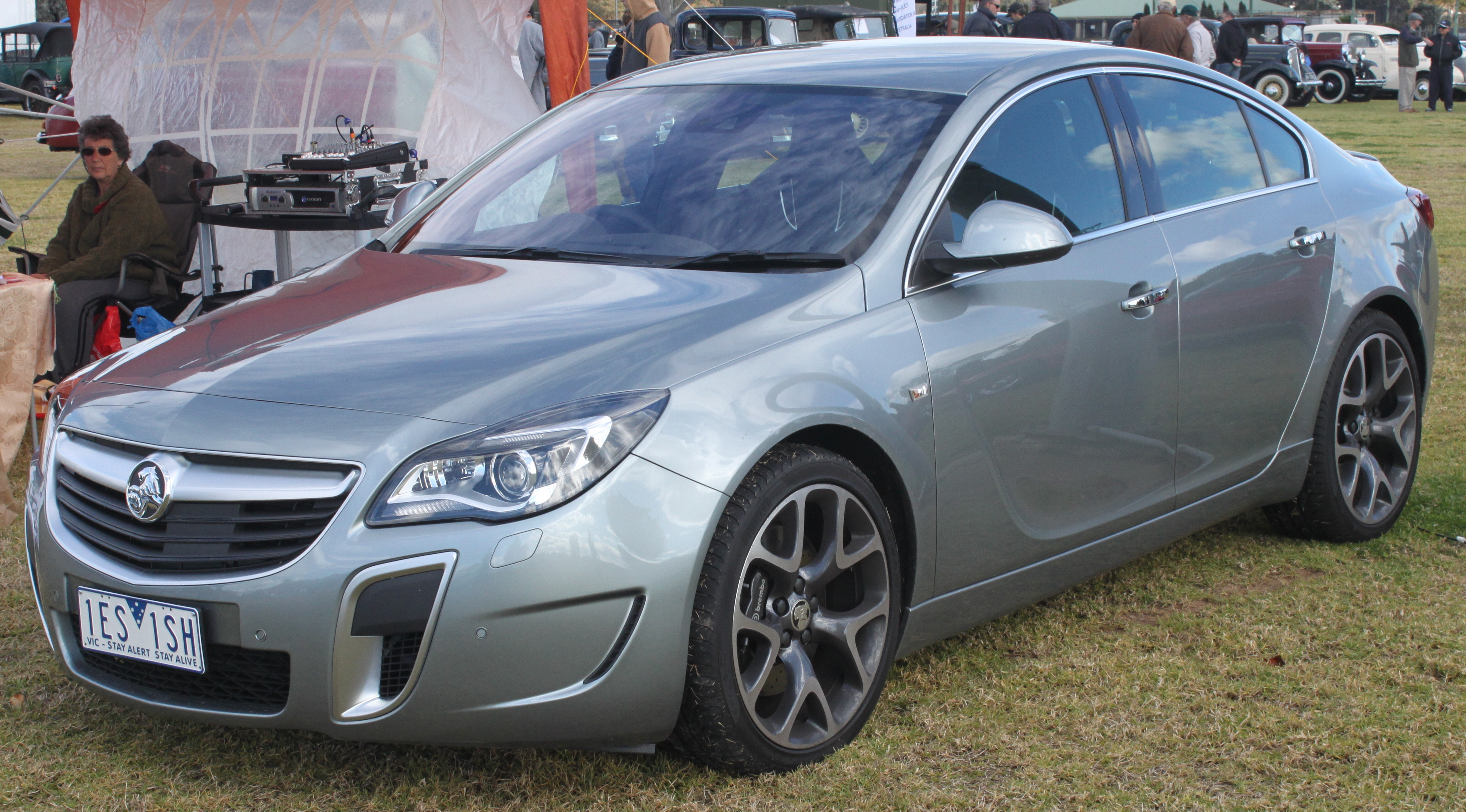 GM Display Day, Penrith Panthers, NSW July 2015